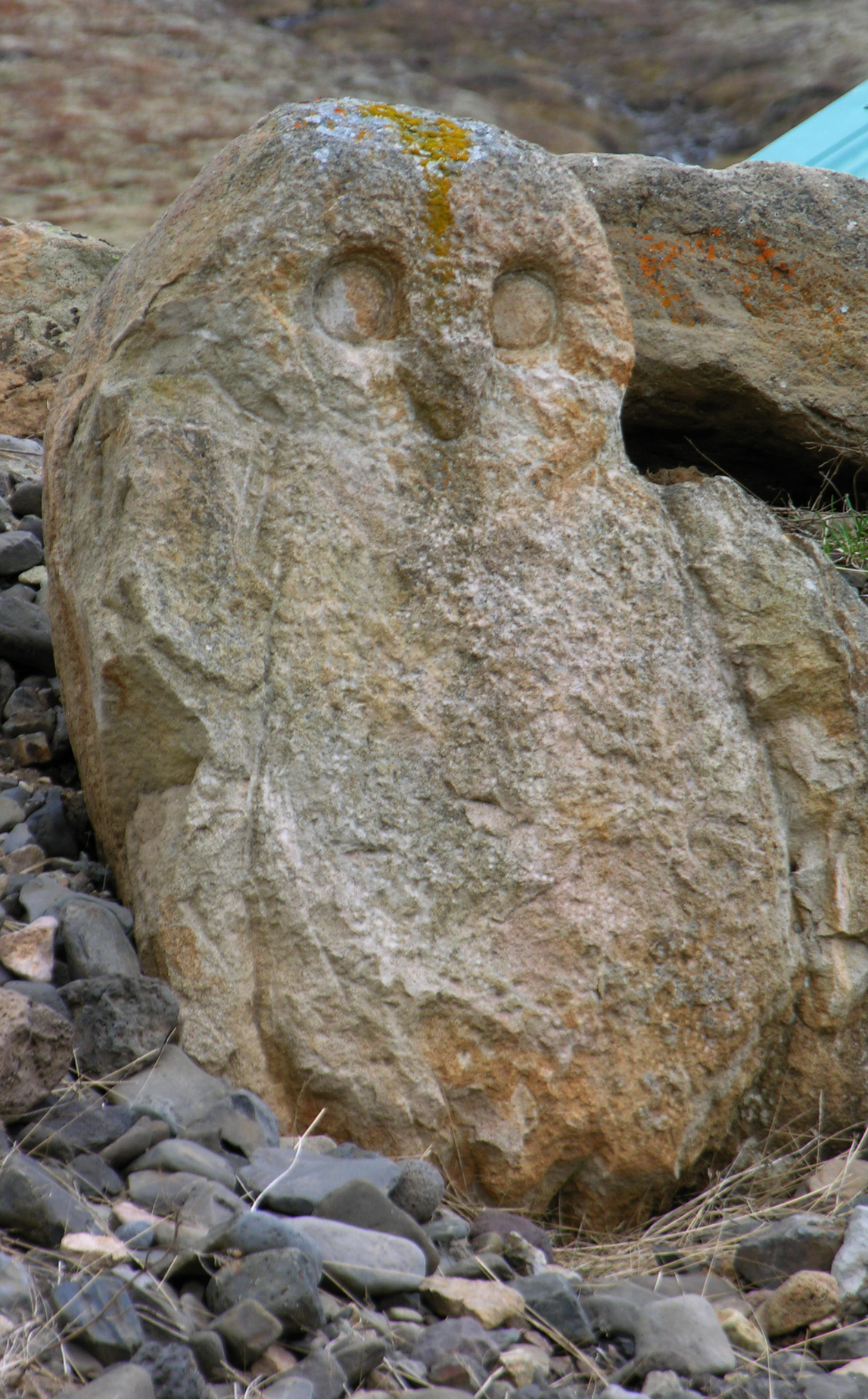 Iceland, stone sculpture in Húsafell by Páll Guðmundsson.